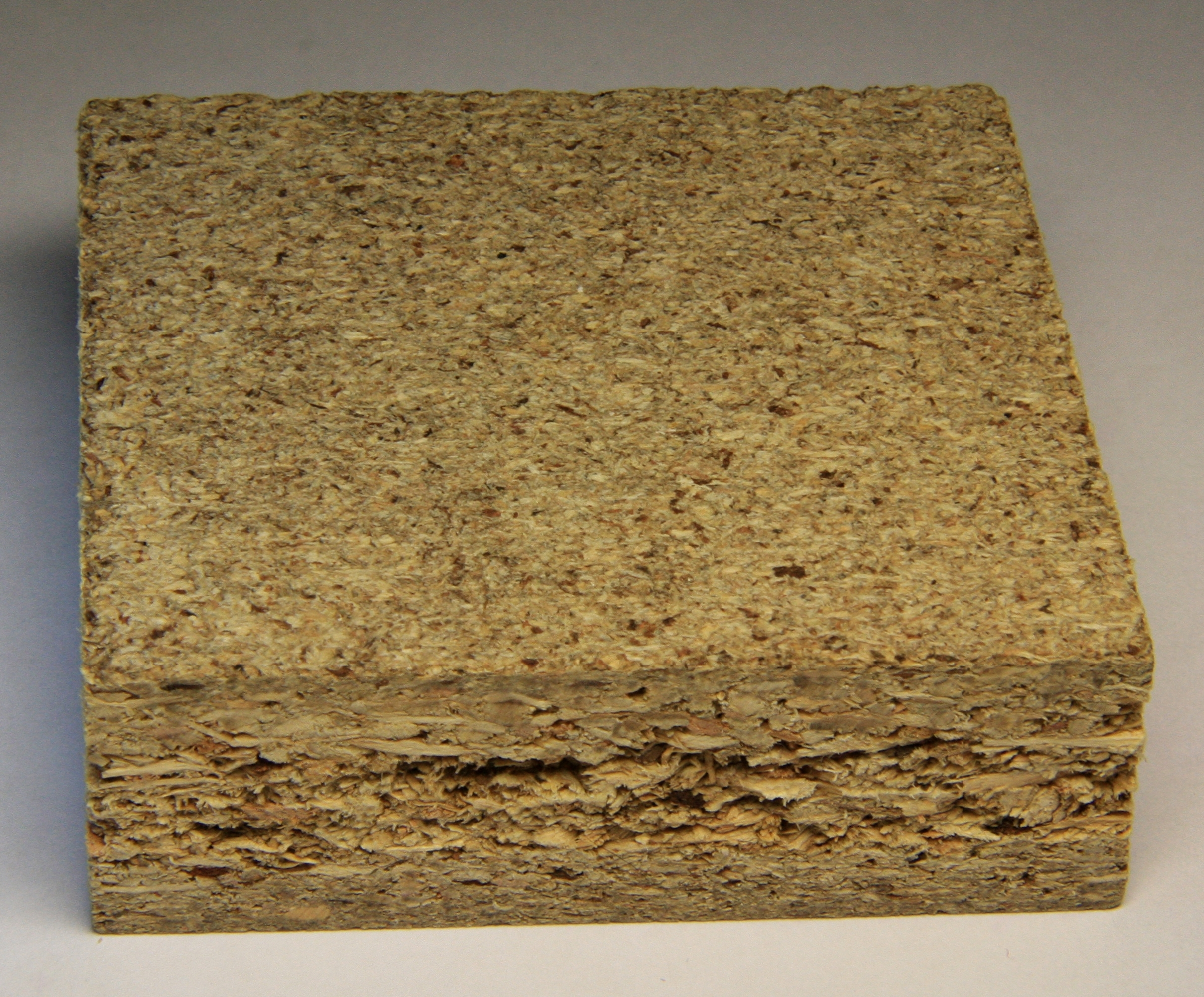 A small piece of a particle board